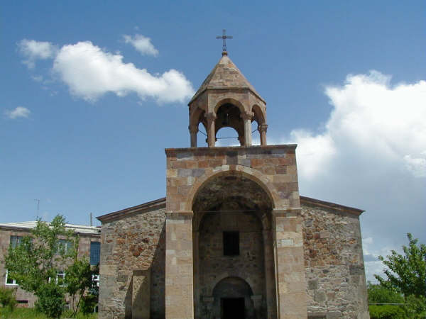 Basilica of the Holy Mother of God in Yeghegnadzor, formerly known as Surb Sarkis church. 1/2.1